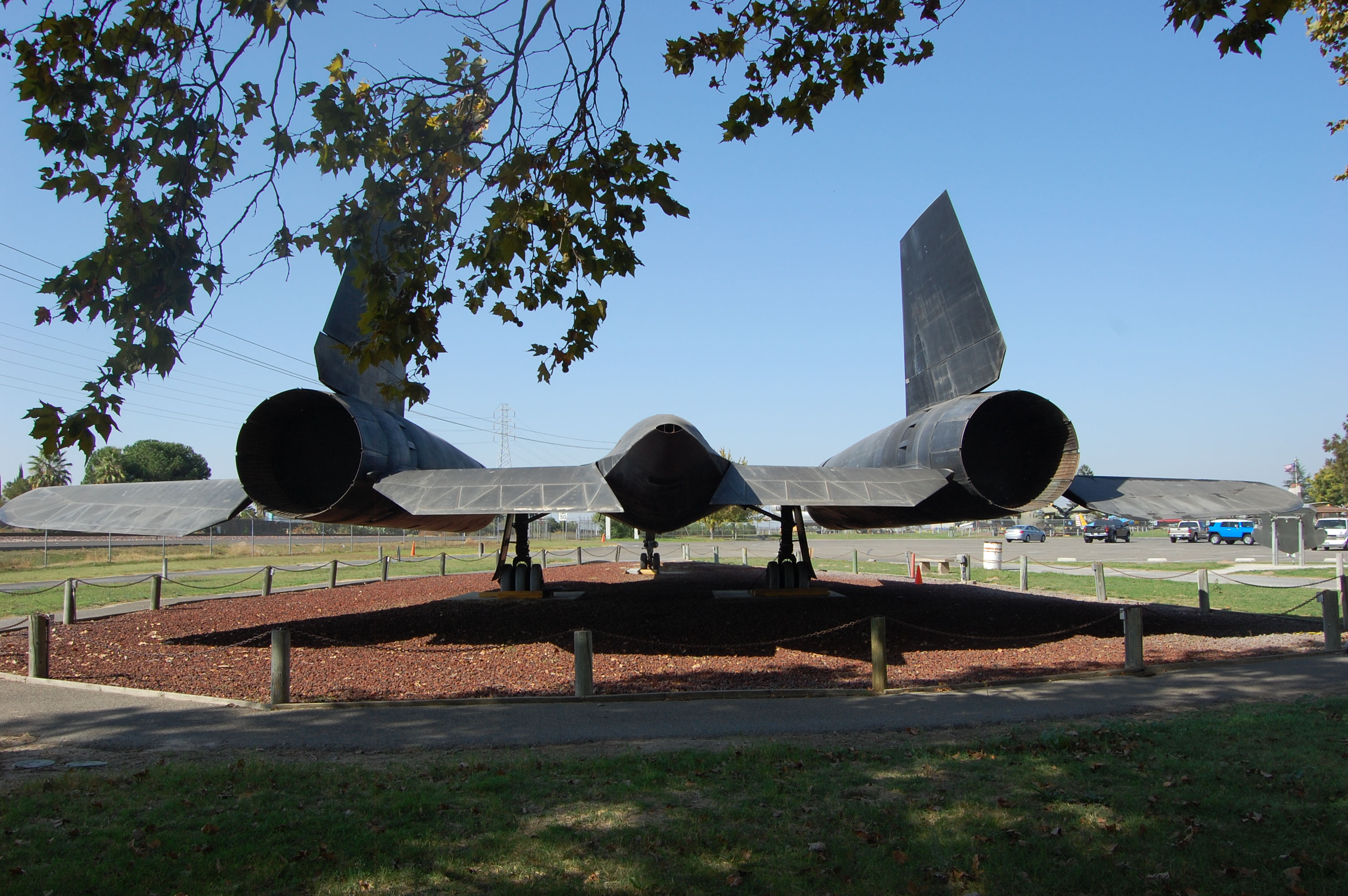 A Lockheed SR-71 Blackbird on display at Castle Air Museum